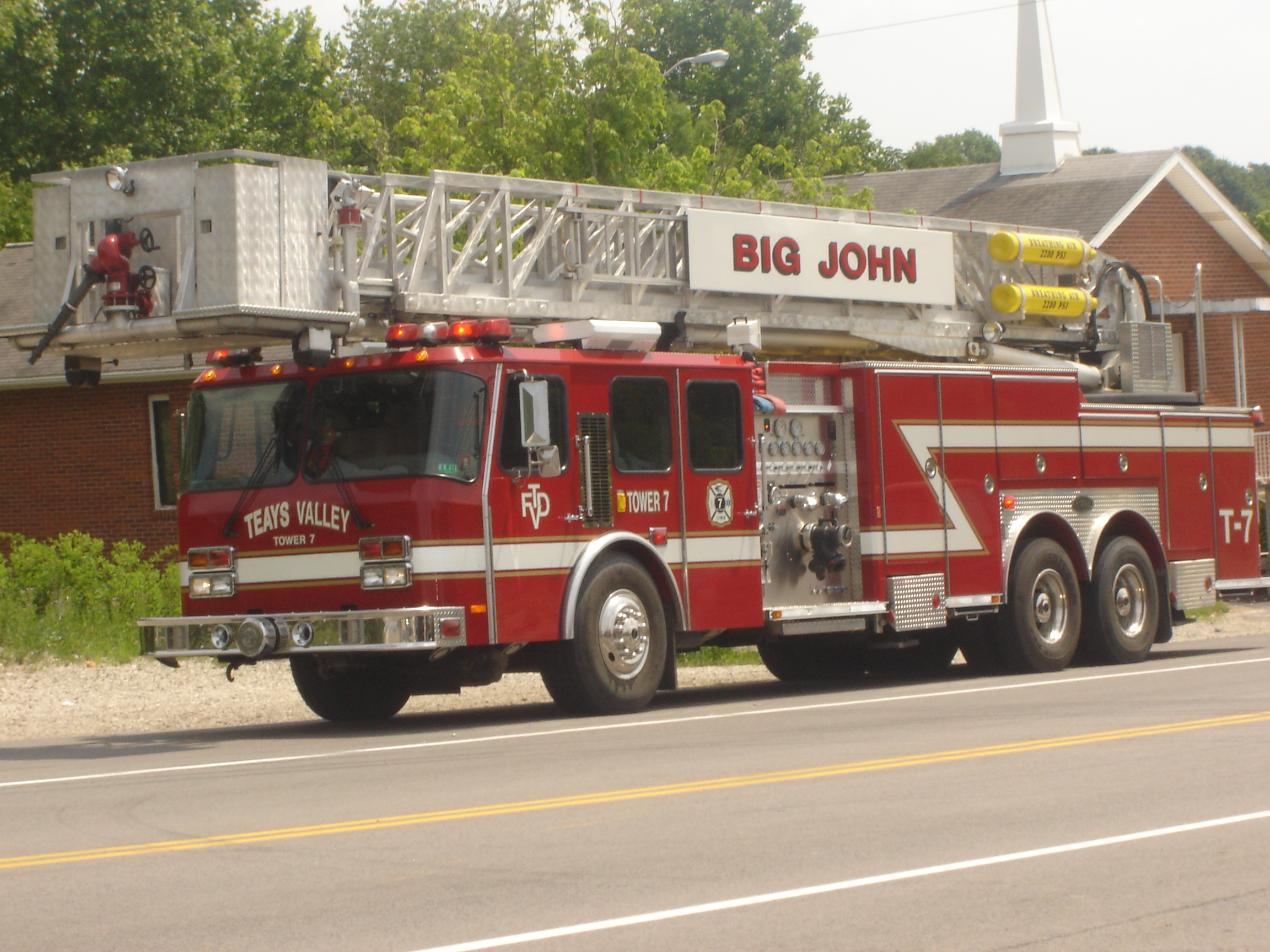 Teays Valley Fire Department Truck 7 (1999 E-One 95' Platform Tower, "Big John", Tower 7)